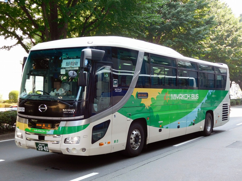 Miyakoh bus HINO S'elega (LKG-RU1ESBA) for highwaybus "Sendai-Kesennuma"